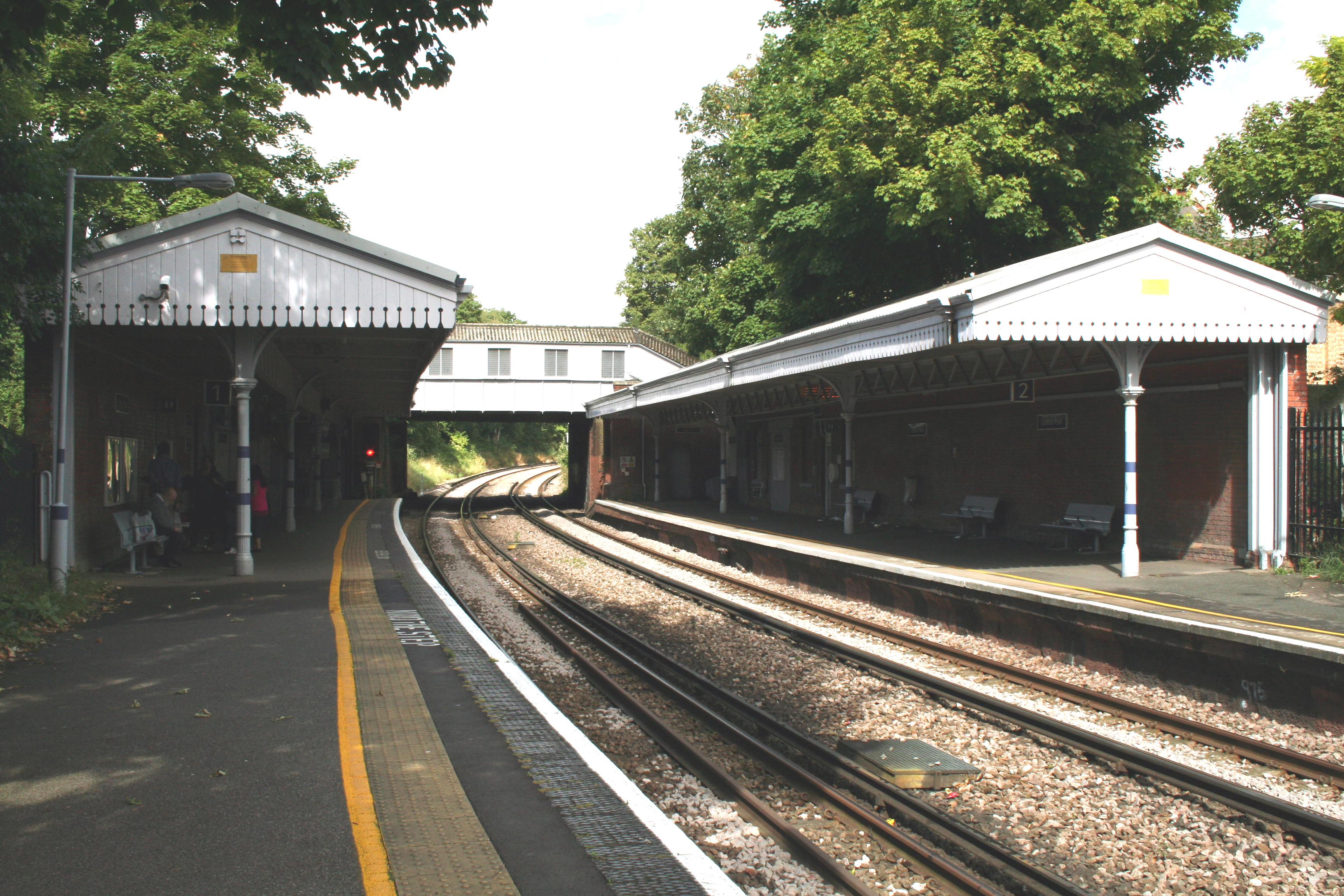 Crofton Park station Looking north. Comparison with Ben Brooksbank's 1983 picture: Crofton Park Station shows there has been little change over the last 30 years. The station was opened in 1892 with the rest of the Catford Loop line.